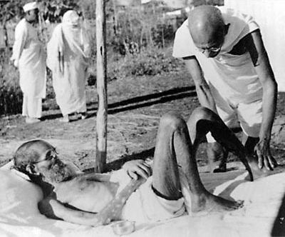 Giving massage, 15 min. daily, to a leper patient, the Sanskrit scholar Parchure Shastri, at Sevagram Ashram, 1940.